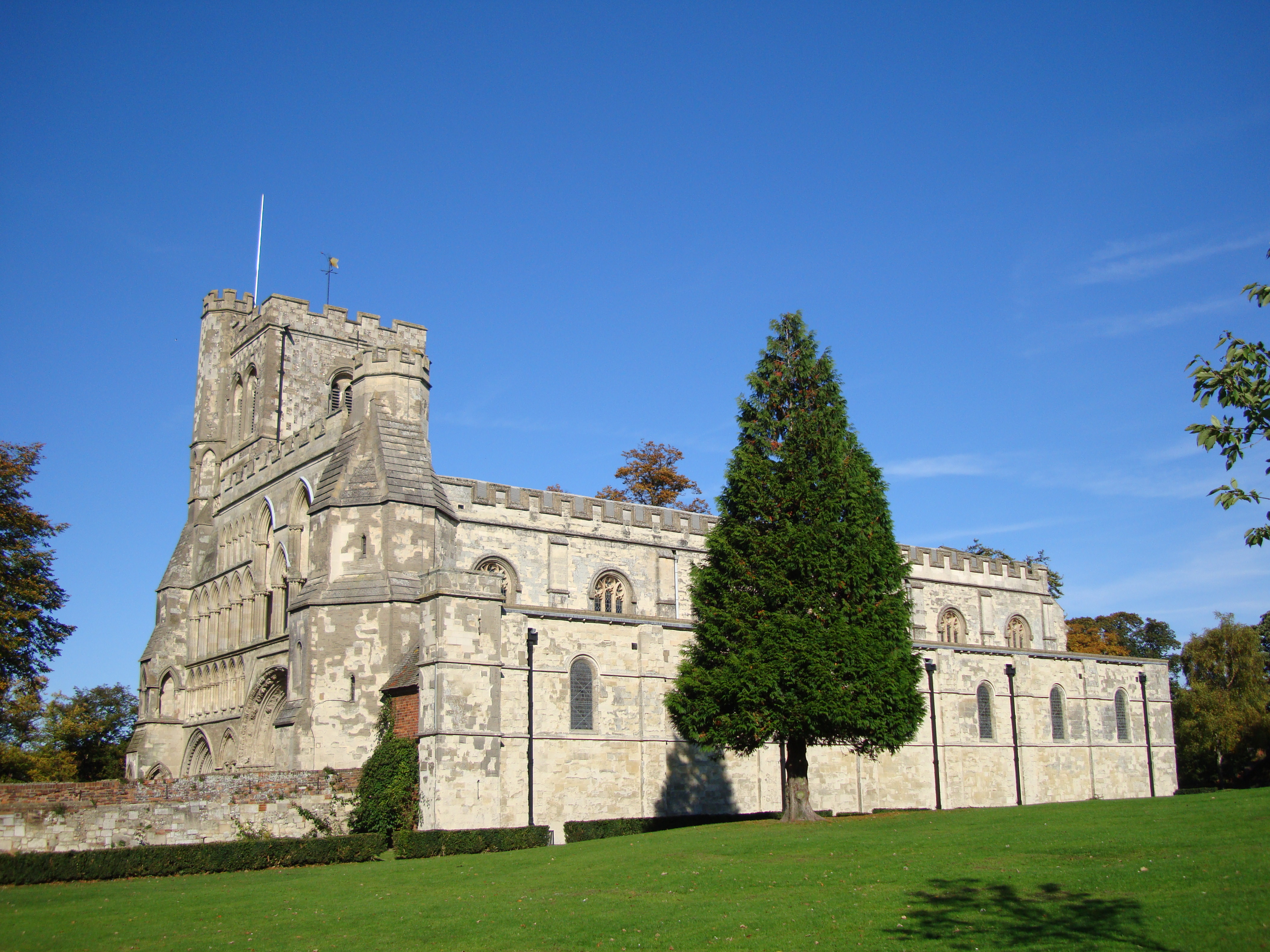 Photograph of Dunstable Priory, Bedfordshire, England